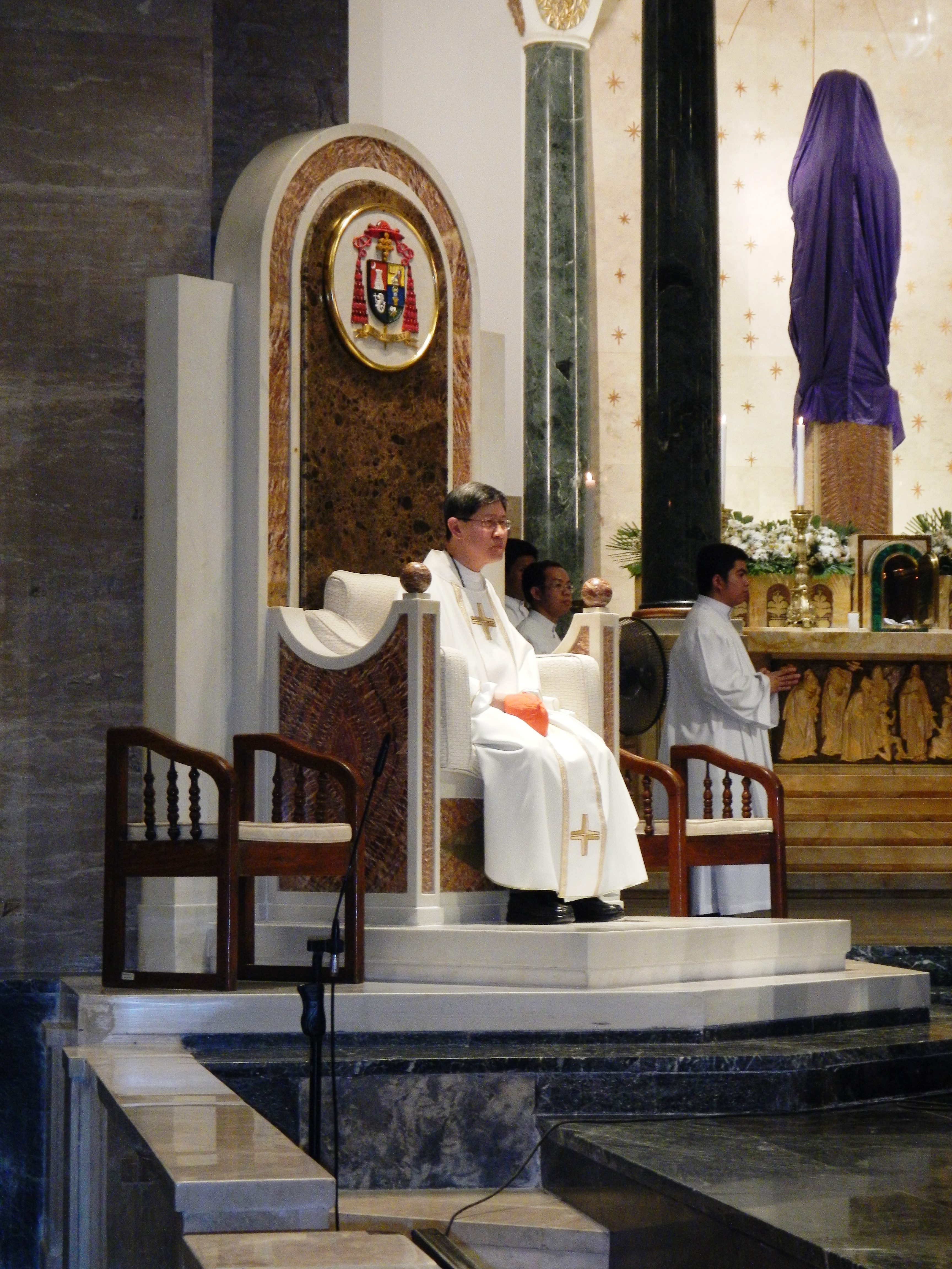 2014 Maundy Thursday, in the Philippines: Mass of the Lord's Supper and Chrysm Mass [1] and Washing of Feet Foot washing by Cardinal Luis Antonio Tagle in Manila Cathedral: Cardinal Luis Antonio Tagle vested in a humeral veil, holding a monstrance containing the Blessed Sacrament.